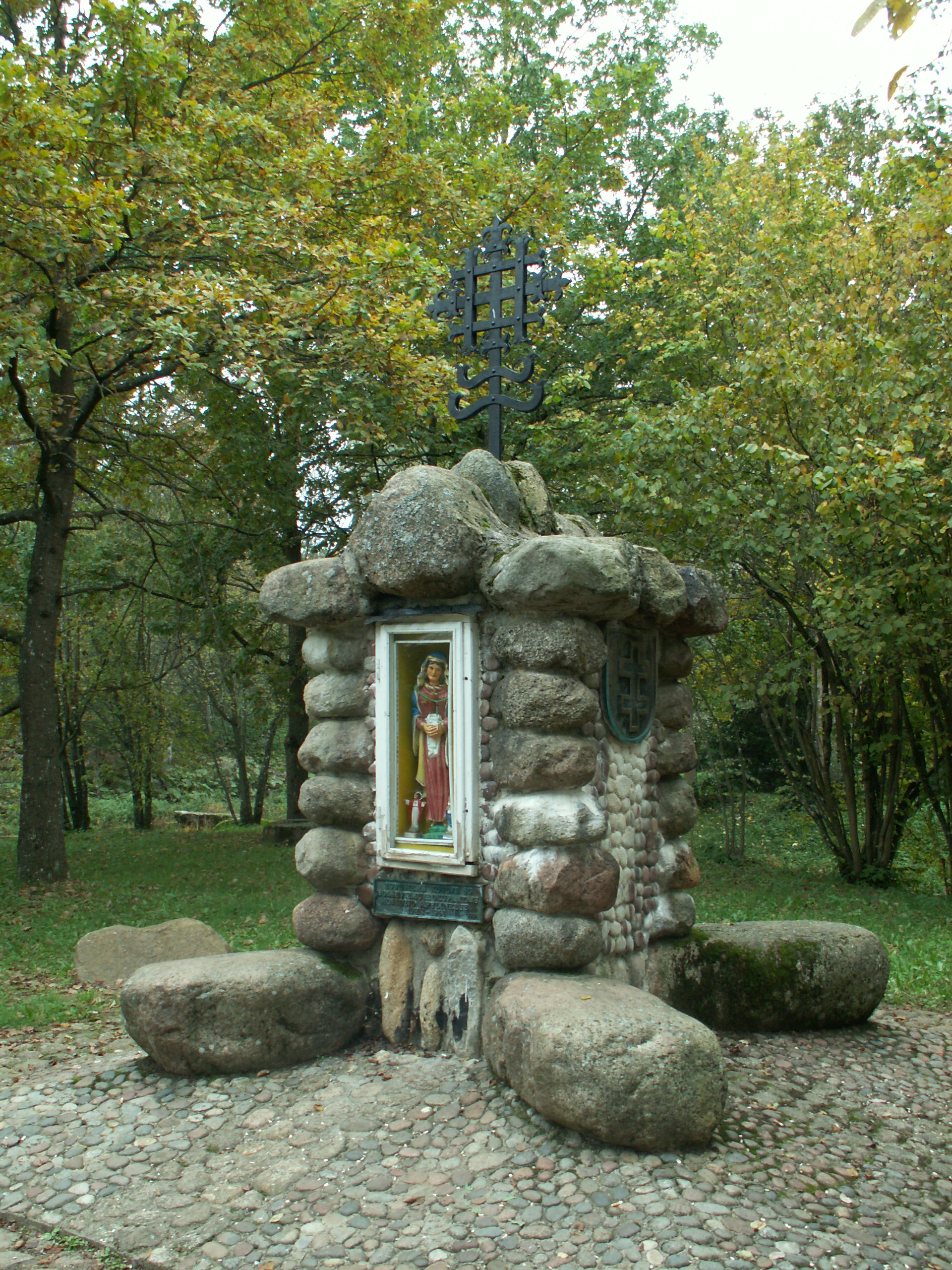 Mosėdis, Skuodas district, LithuaniaLietuvių: Mosėdžio partizanų paminklas, Skuodo rajonas, Lietuva